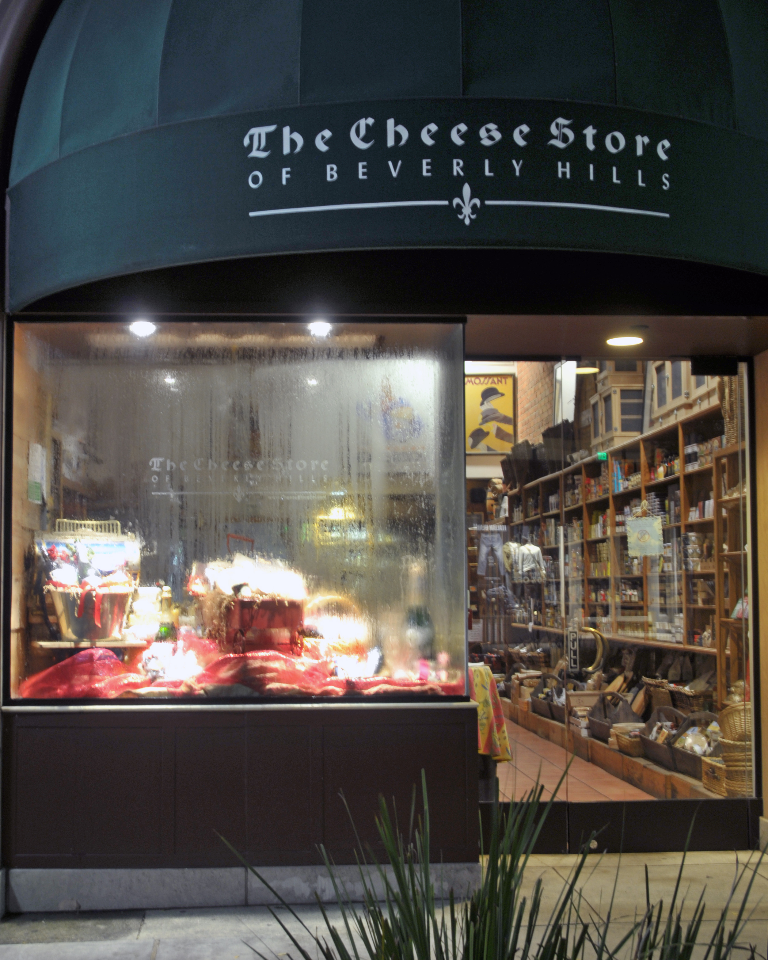 The Cheese Store of Beverly Hills, Beverly Hills, California - Photo by Glenn Francis of